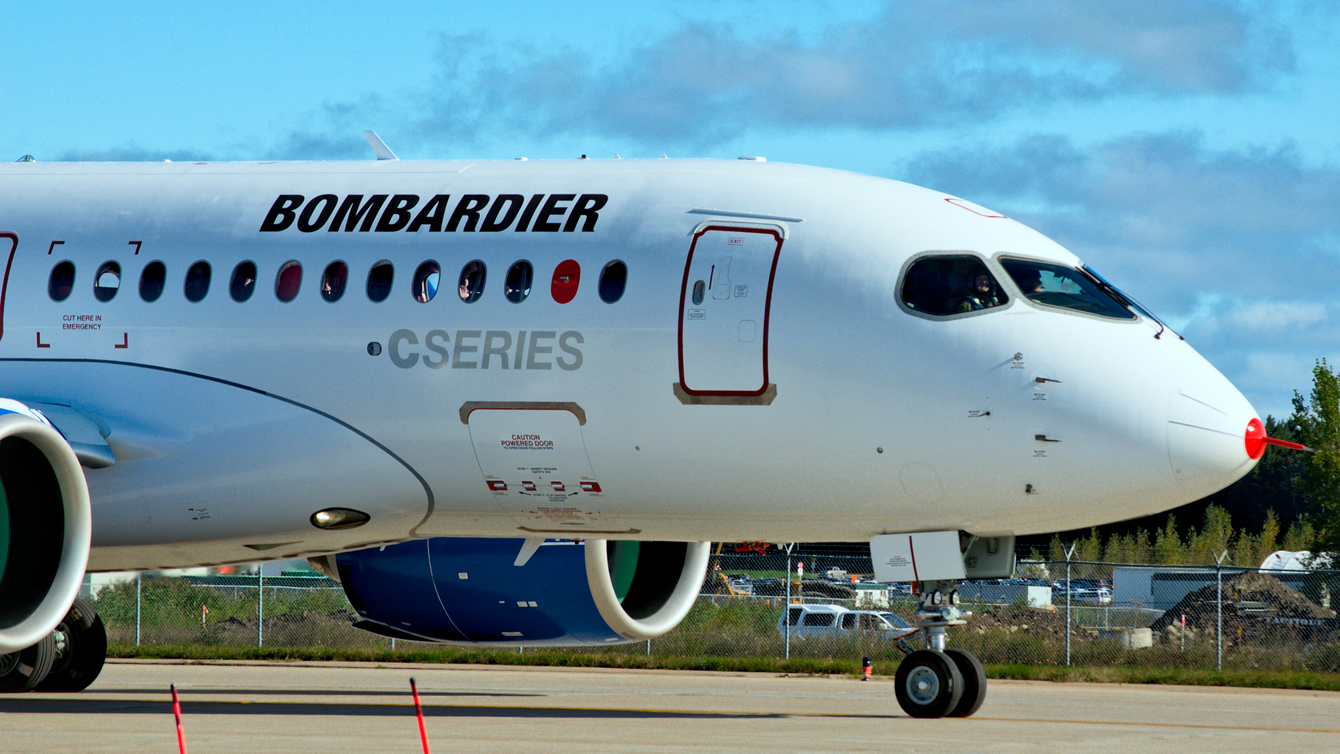 Bombardier CSeries CS100 FTV-1 taxiing for take-off on maiden flight